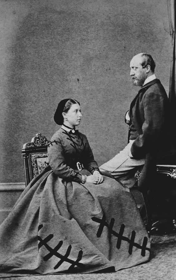 Princess Helena of the UK with her husband Prince Christian